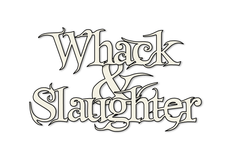 Logo for the Whack & Slaughter skirmish System